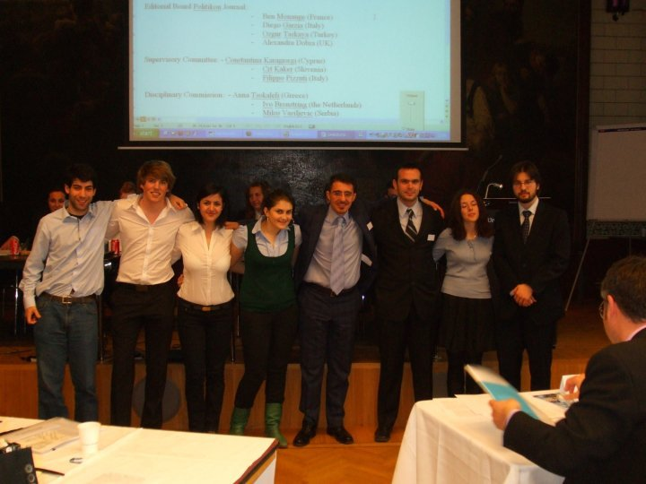 International Association for Political Science Students Executive Committee elected at the 2010 General Assembly in Leiden, The Netherlands.